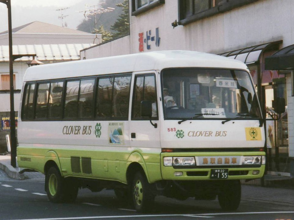 Tottori Jidosha(Toritaku Clover Bus)